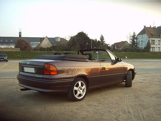 Opel Astra F Cabrio